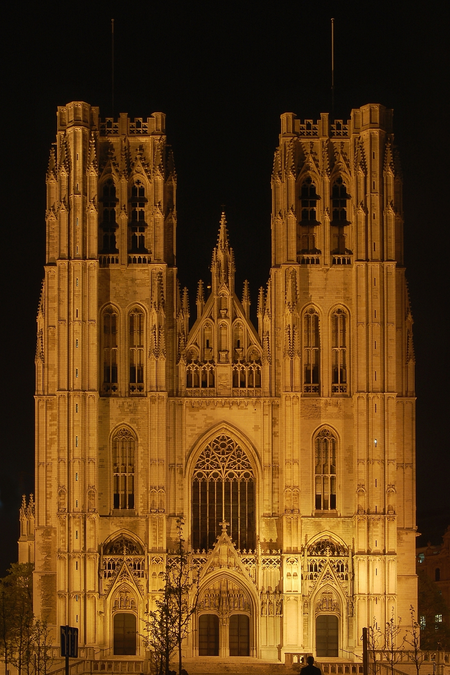 Cathédral St Michel by night in Brusels (Belgium). style gothic